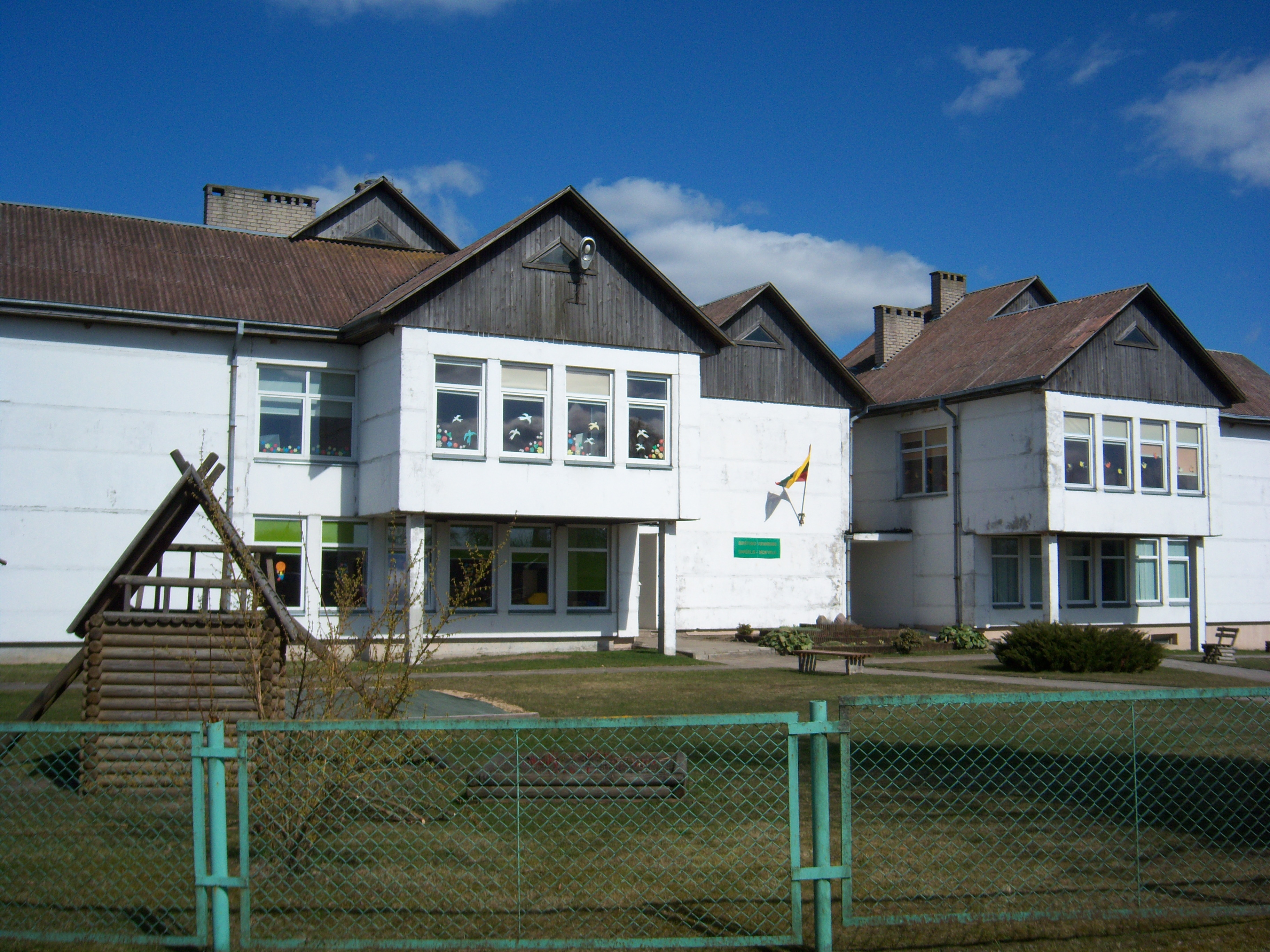 School in Birštono Vienkiemis, Birštonas Municipality, Lithuania